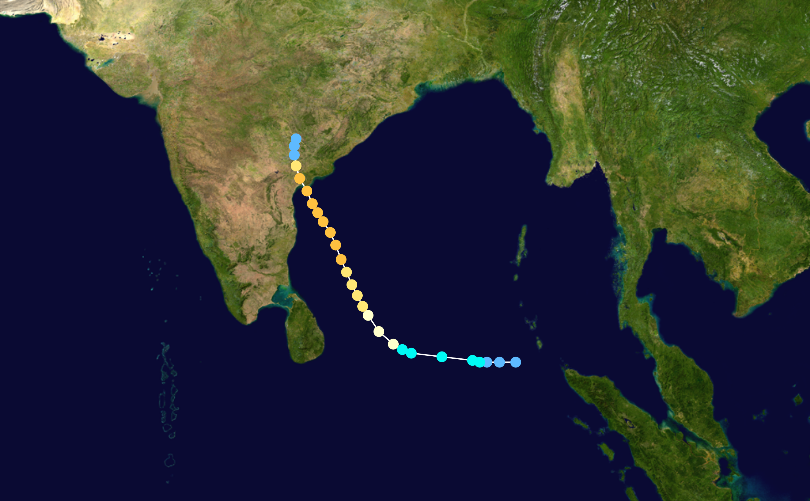 Track map of the 1977 Andhra Pradesh cyclone of the 1977 North Indian ocean cyclone season. The points show the location of the storm at 6-hour intervals. The colour represents the storm's maximum sustained wind speeds as classified in the Saffir-Simpson Hurricane Scale (see below), and the shape of the data points represent the nature of the storm, according to the legend below. Saffir–Simpson scale Tropical depression≤38 mph≤62 km/h Category 3111–129 mph178–208 km/h Tropical storm39–73 mph63–118 km/h Category 4130–156 mph209–251 km/h Category 174–95 mph119–153 km/h Category 5≥157 mph≥252 km/h Category 296–110 mph154–177 km/h Unknown Storm type Tropical cyclone Subtropical cyclone Extratropical cyclone / Remnant low / Tropical disturbance